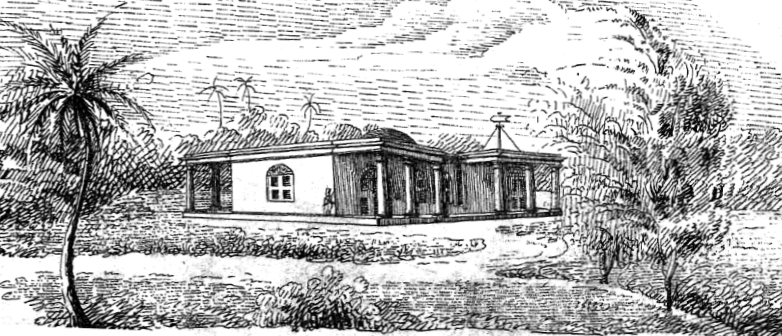 Woodcut of the Madras Astronomical Observatory